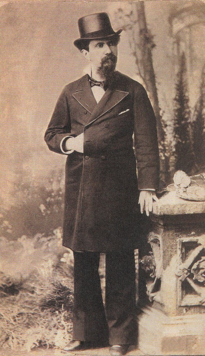 Portrait of former President of Argentina, Nicolás Avellaneda.